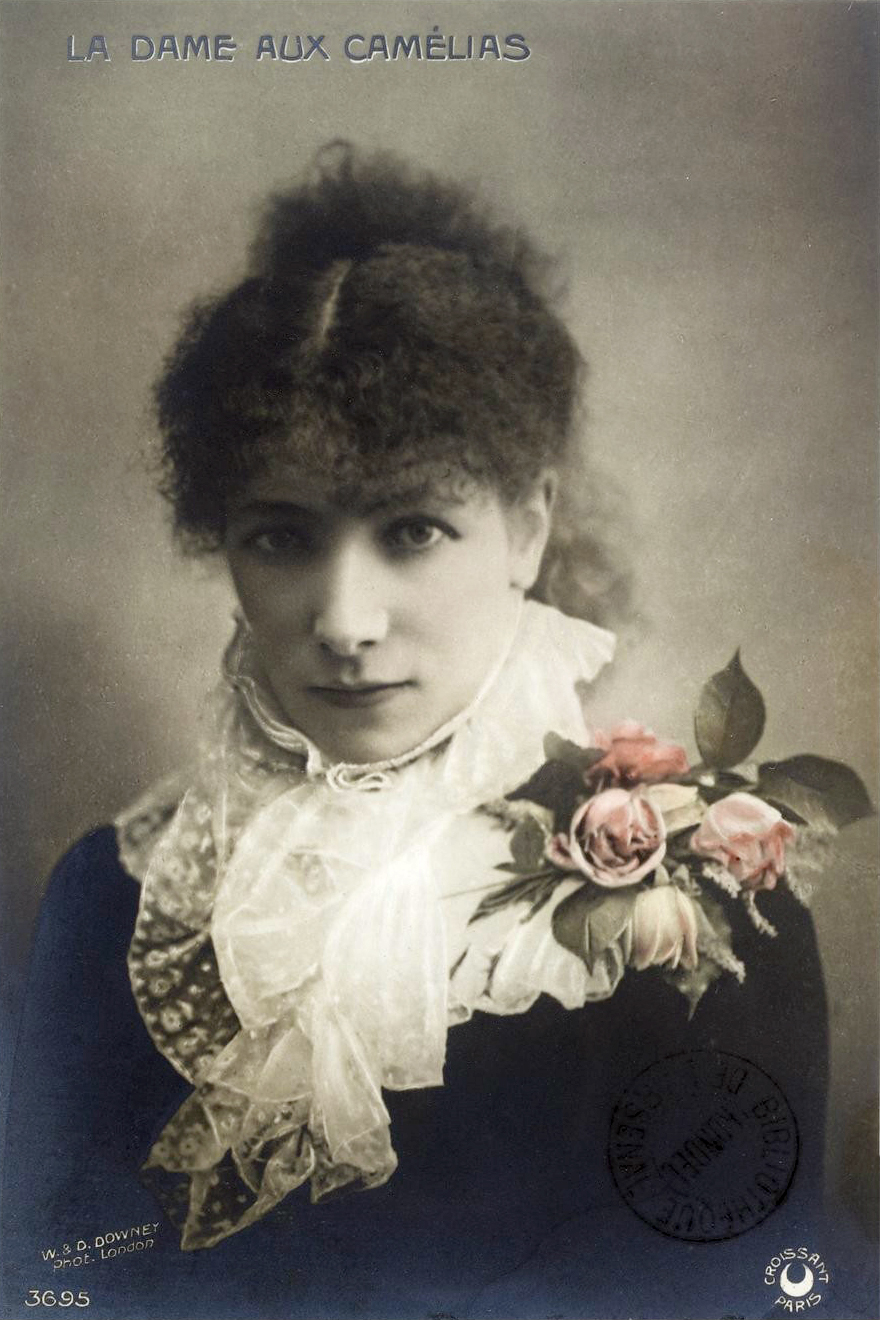 Portrait of Sarah Bernhardt as Marguerite Gautier in La Dame aux camelias La dame aux camélias : pièce en 5 actes / d'Alexandre Dumas fils. - Paris : Théâtre de la Gaîté, 26-05-1882